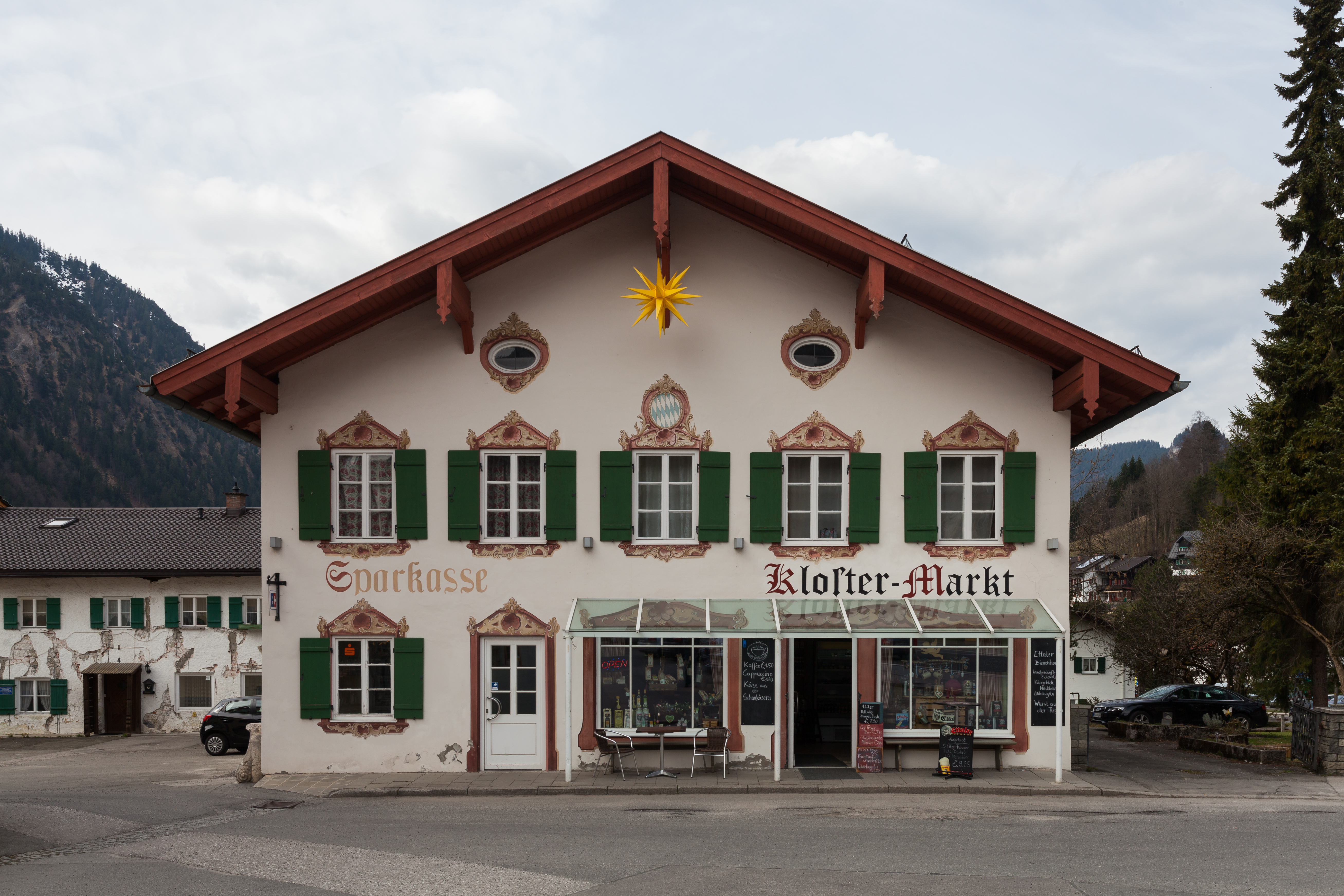 Shop in Ettal, Bavaria, Germany